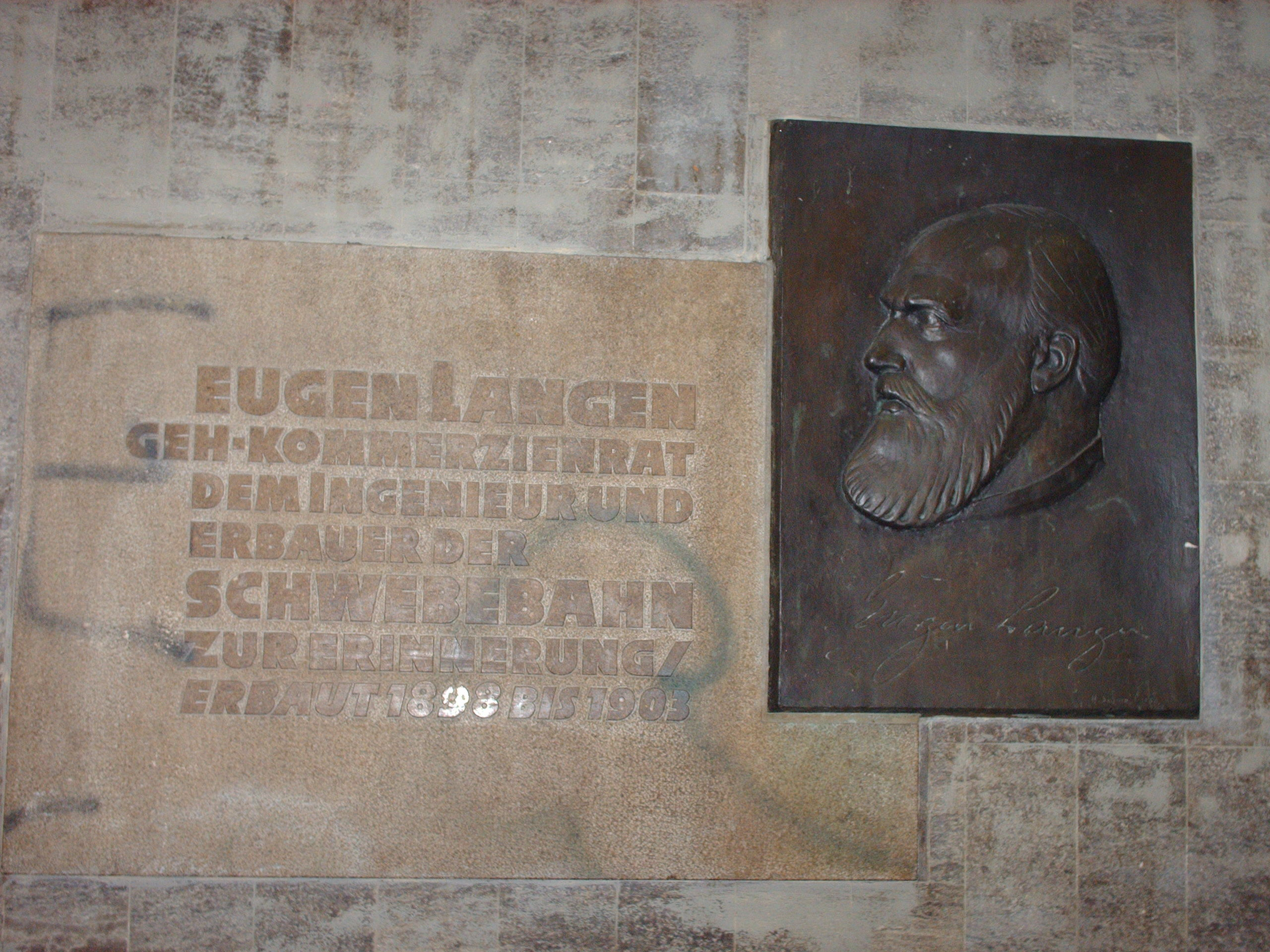 Monument at Schwebebahn, Wuppertal, Germany check usage